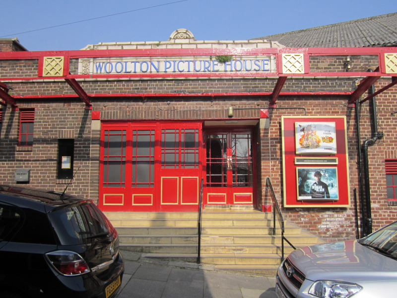 Woolton Picture House, 3 Mason Street, Woolton, Liverpool, England.